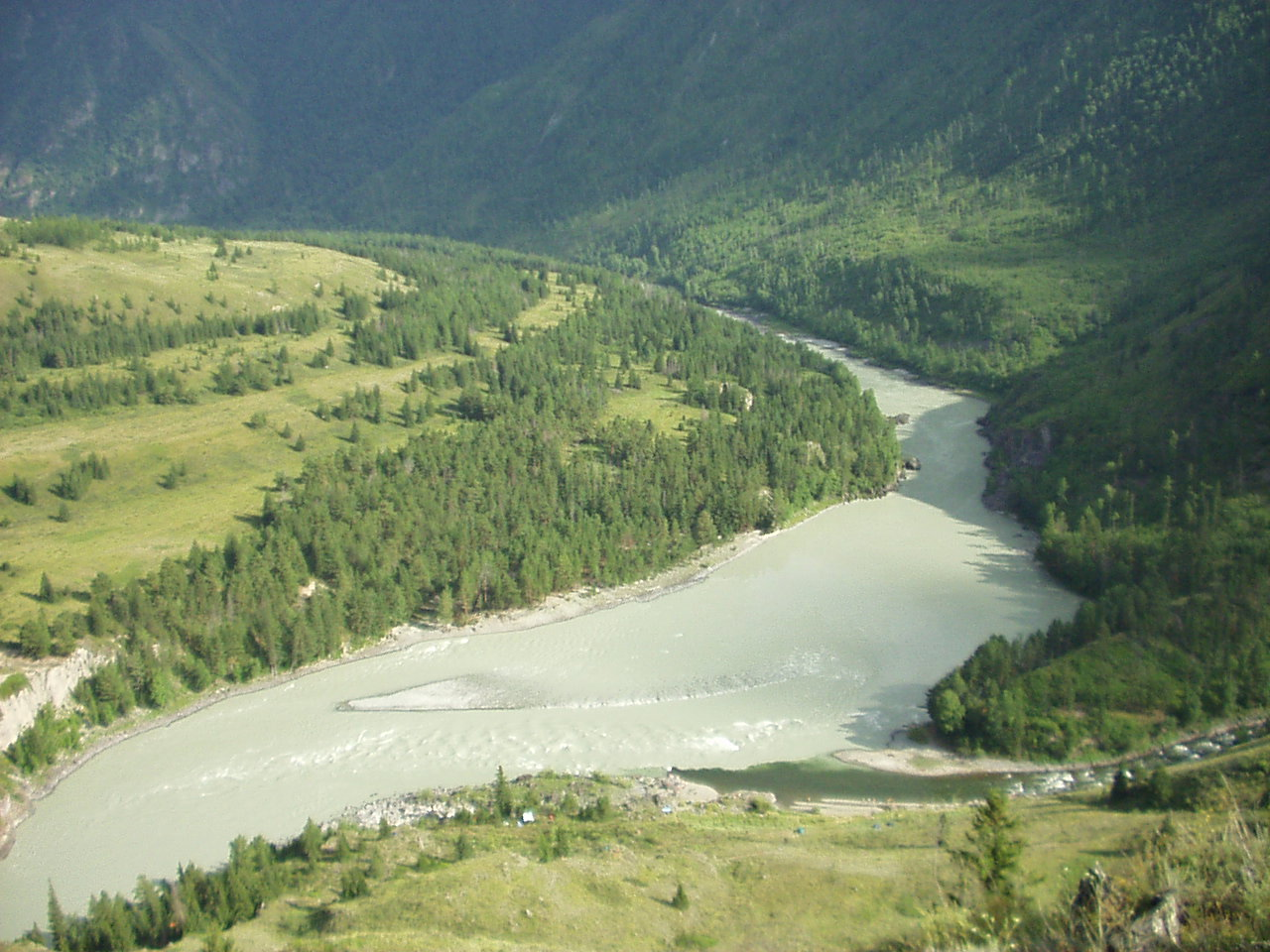 Altay Republic, Ongudaisky District, Ursul river (smaller) meets Katun' river